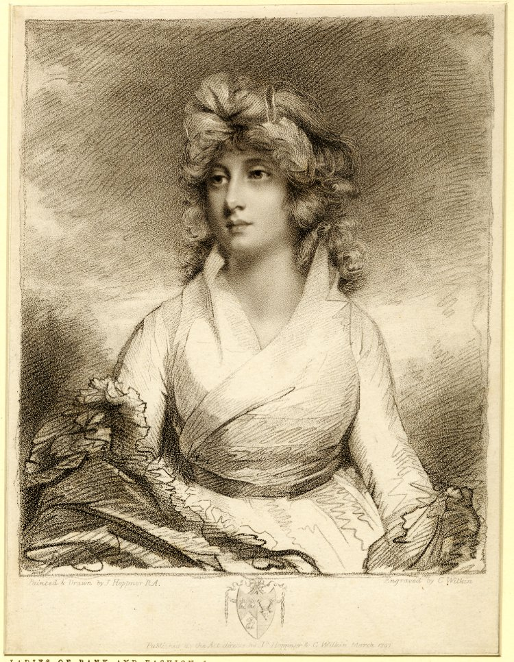 Ladies of Rank and Fashion / Lady Charlotte Duncombe, wife of Charles Duncombe, 1st Baron Feversham, Plate 1: half-length with a hat with a bow; proof before title. Stipple After John Hoppner, Print made by Charles Wilkin in London 1797